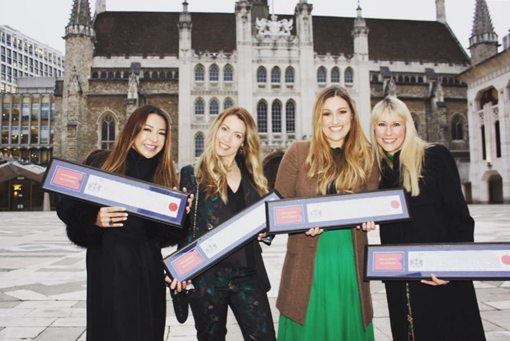 Gay-yee Westerhoff Eos Counsell Elspeth Hanson Tania Davis receiving the Freedom of the City of London